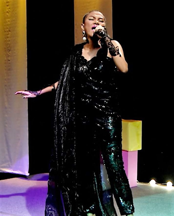 MarVi beim 3. Geburtstag von GMN TV